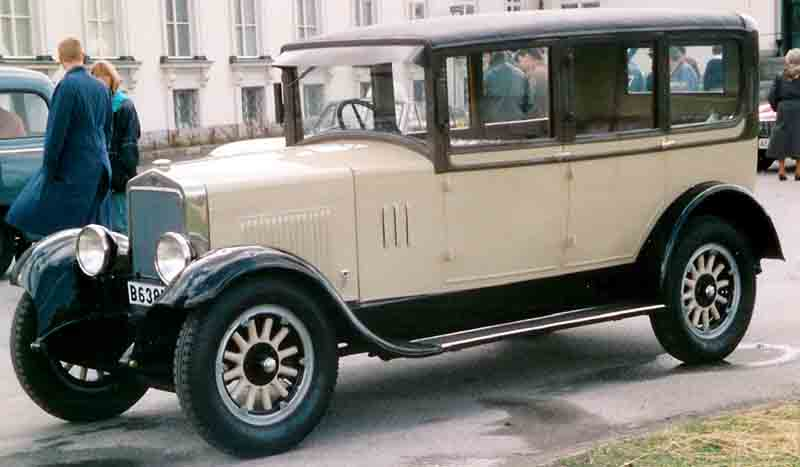 Scania-Vabis Type 2122 4-Door Sedan 1929